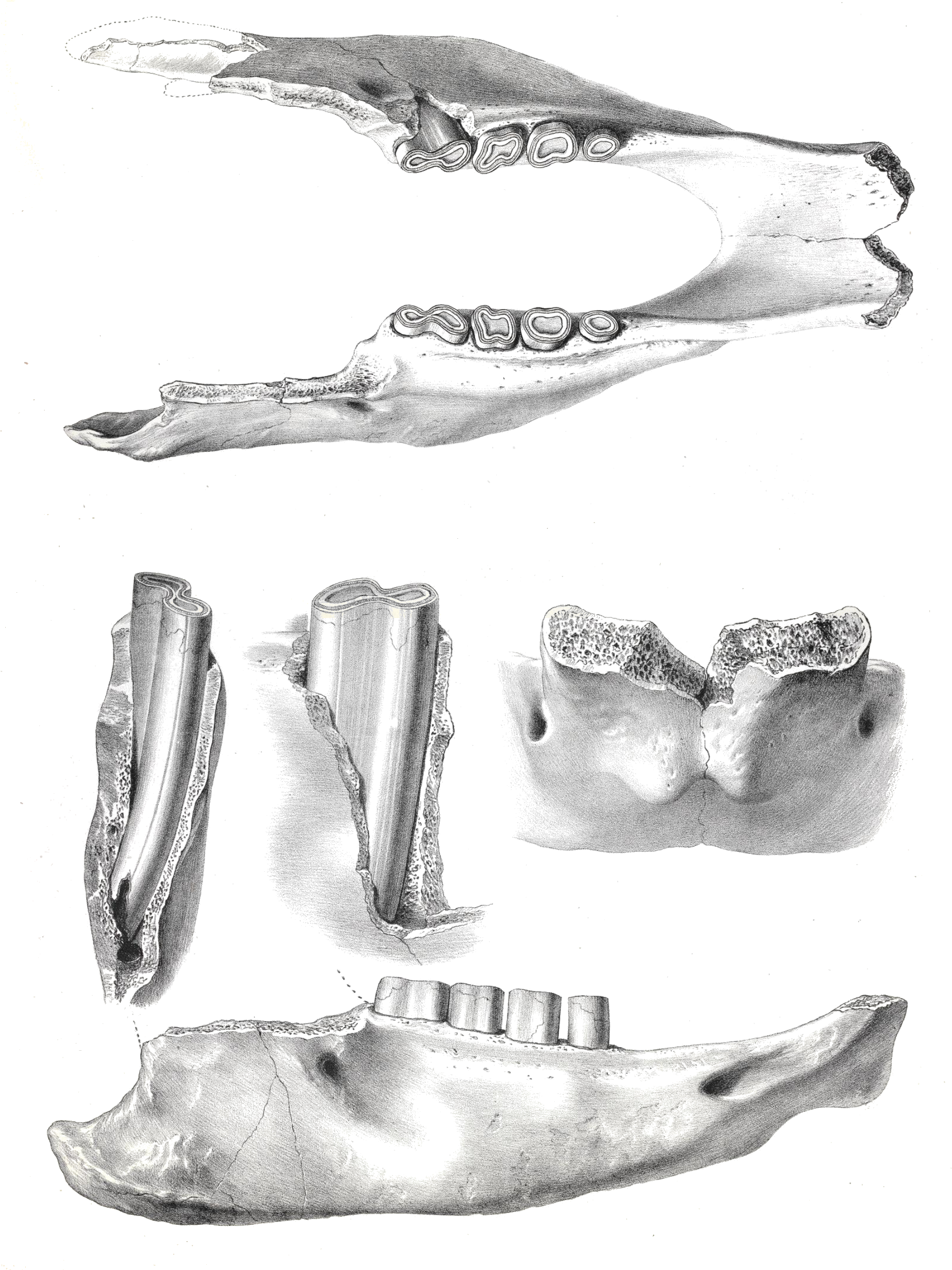 Mylodon, mandible (holotype) of M. darwinii (NHM 16617) from Punta Alta near Bahía Blanca, Argentina, Upper Pleistocene